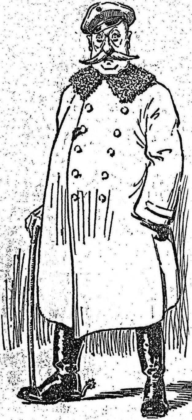 Caricature of Hauptmann Karl Niemeyer, Kommandant of Holzminden PoW camp, 1918